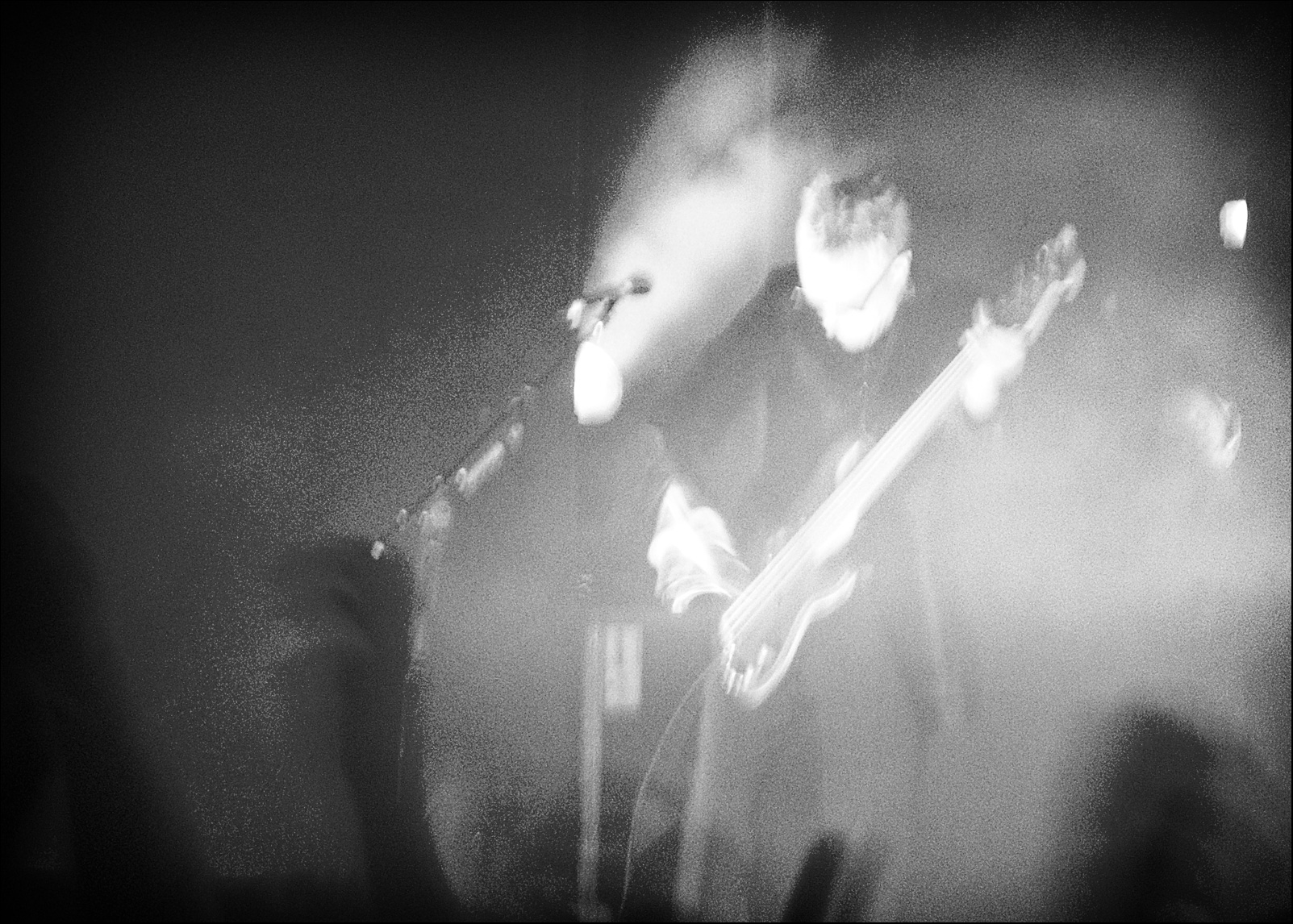 Bassist David J in concert with Bauhaus in London.